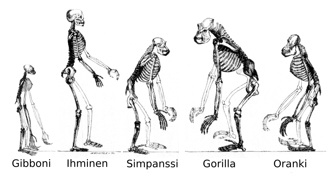 Modification of Image:Huxley - Mans Place in Nature.jpg Gibbon now shown at natural size.